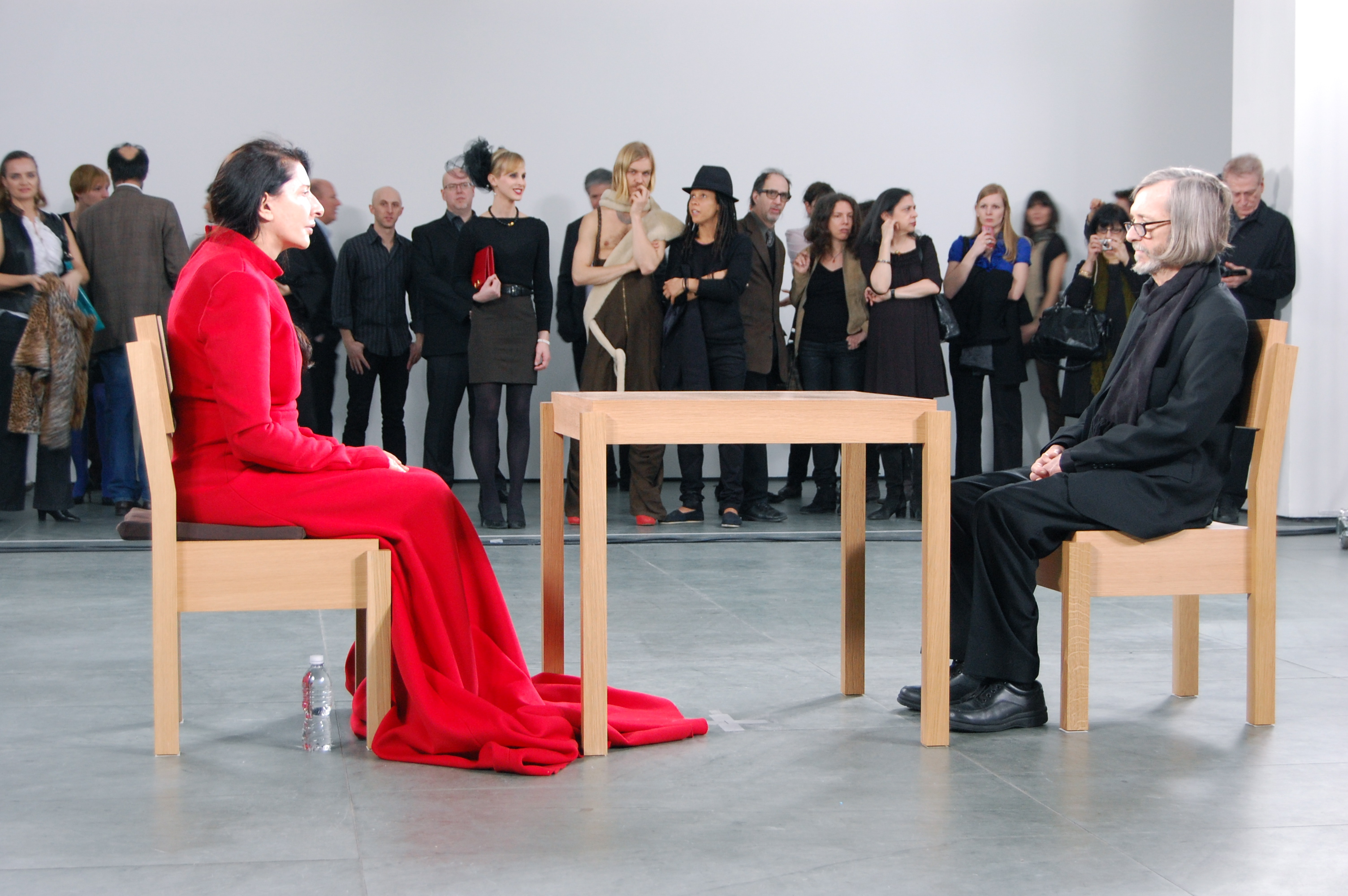 Marina Abramović, The Artist is Present, 2010, Museum of Modern Art, New York, 9 March – 31 May 2010.